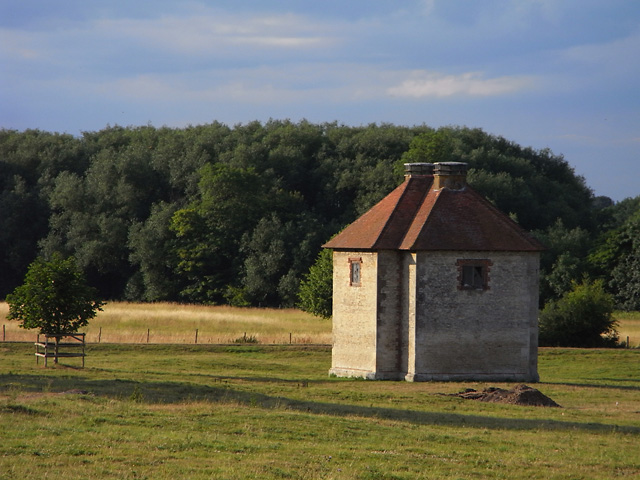 Dovecote, Brightwell Park, Brightwell Baldwin, Oxfordshire. A 17th-century building with a Greek cross layout.